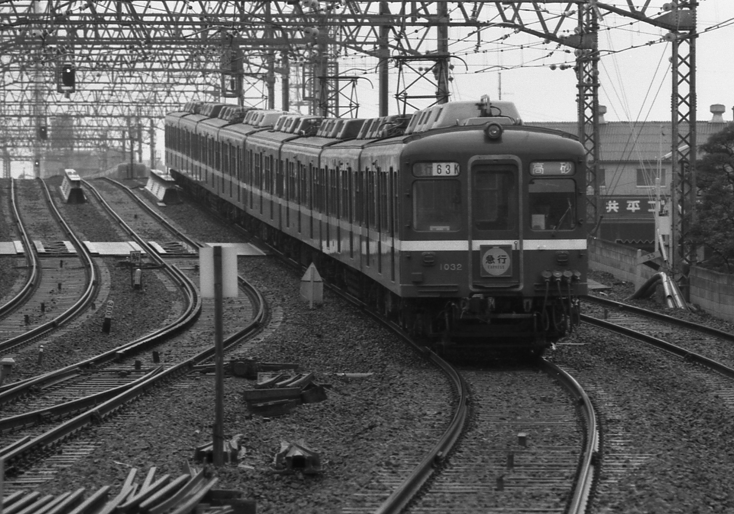 Keisei 1032 at Takasago Station